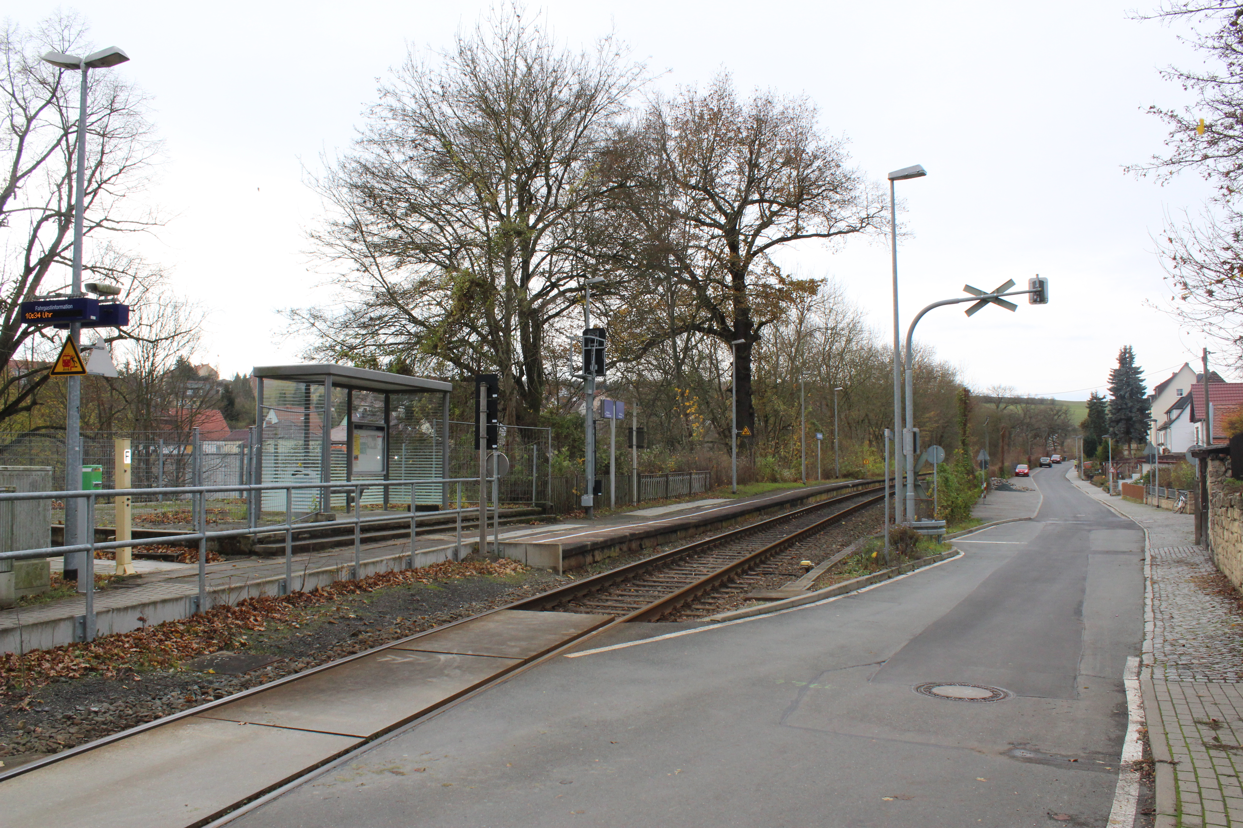 train station Bad Sulza Nord